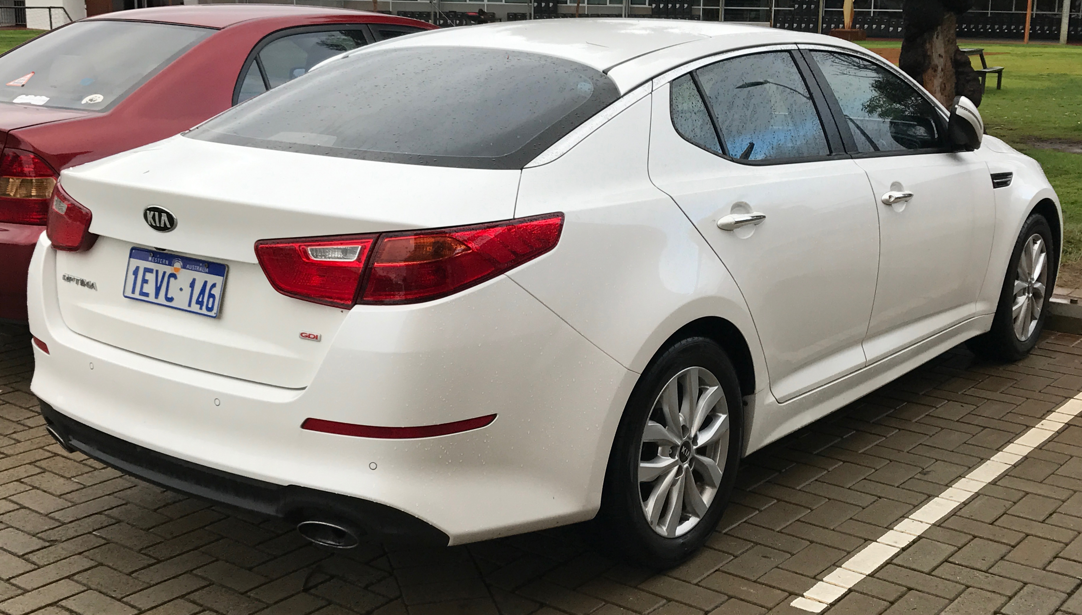 2015 Kia Optima (TF MY15) Si sedan. Photographed in Swanbourne, Western Australia, Australia.